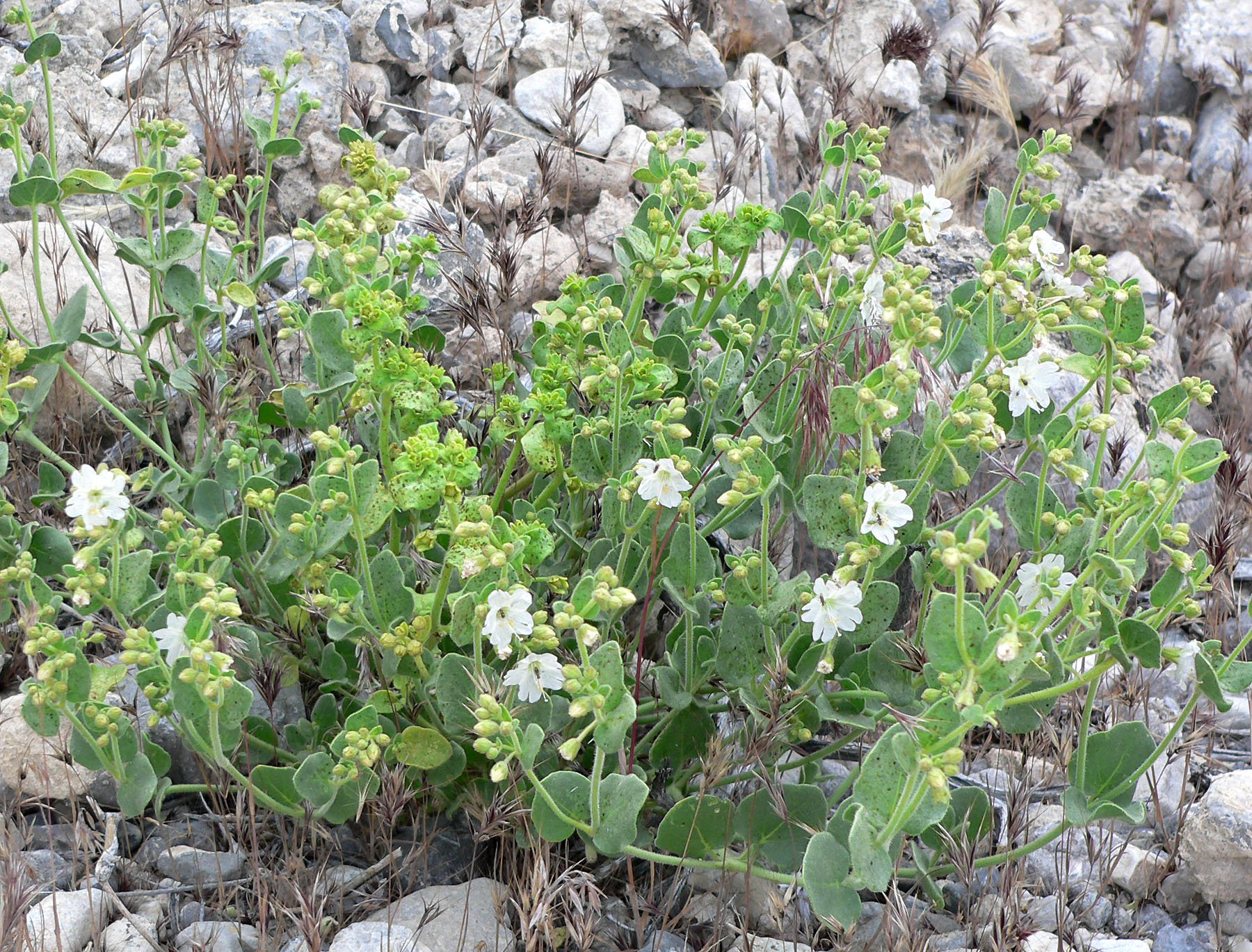 Mirabilis laevis var. villosa in Red Rock Canyon, Nevada